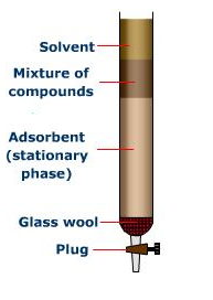 Column_chromatography